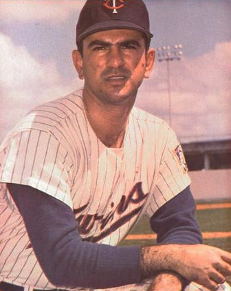 Professional baseball player Camilo Pascual